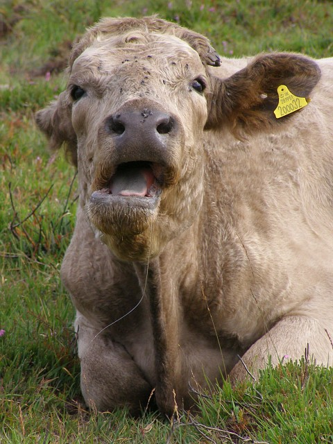 Cud-chewing cow, south of Ferny Knap Inclosure, New Forest. One of several cows sat chewing the cud on the heath to the south of Ferny Knap Inclosure. This area of heath has been burned in the not-too-distant past, and the regrowth is visible in the foreground.